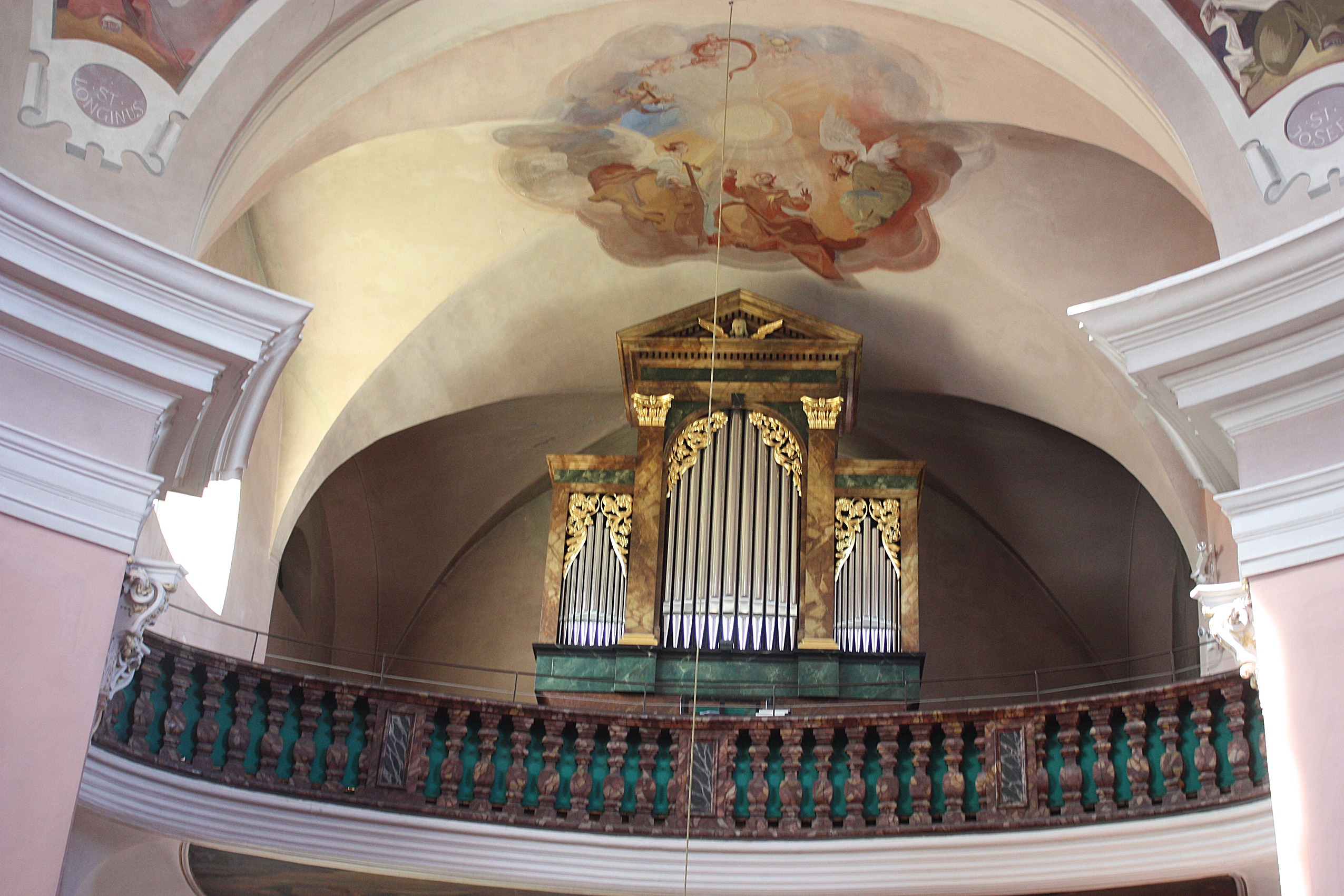 Villach, Holy Cross Church, the organ